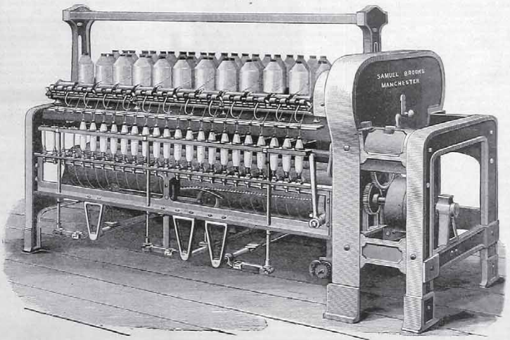 Capture from Textile Mercury, a paper published by Marsden in Manchester in 1892. [1] This UK artistic work, of which the author is unknown and cannot be ascertained by reasonable enquiry, is in the public domain because it is one of the following: A photograph, which has never previously been made available to the public (e.g. by publication or display at an exhibition) and which was taken more than 70 years ago (before 1st January 1944); or A photograph, which was made available to the public (e.g. by publication or display at an exhibition) more than 70 years ago (before 1 January 1944); or An artistic work other than a photograph (e.g. a painting), which was made available to the public (e.g. by publication or display at an exhibition) more than 70 years ago (before 1 January 1944). This tag can be used only when the author cannot be ascertained by reasonable enquiry. If you wish to rely on it, please specify in the image description the research you have carried out to find who the author was. The above is all subject to any overriding Publication right which may exist. In practice, Publication right will often override the first of the bullet points listed. Unpublished anonymous paintings remain in copyright until at least 1 January 2040. This tag does not apply to engravings or musical works. More information. You must also include a United States public domain tag to indicate why this work is in the public domain in the United States. This work is in the public domain in the United States because it was published (or registered with the U.S. Copyright Office) before January 1, 1923. Public domain works must be out of copyright in both the United States and in the source country of the work in order to be hosted on the Commons. If the work is not a U.S. work, the file must have an additional copyright tag indicating the copyright status in the source country.